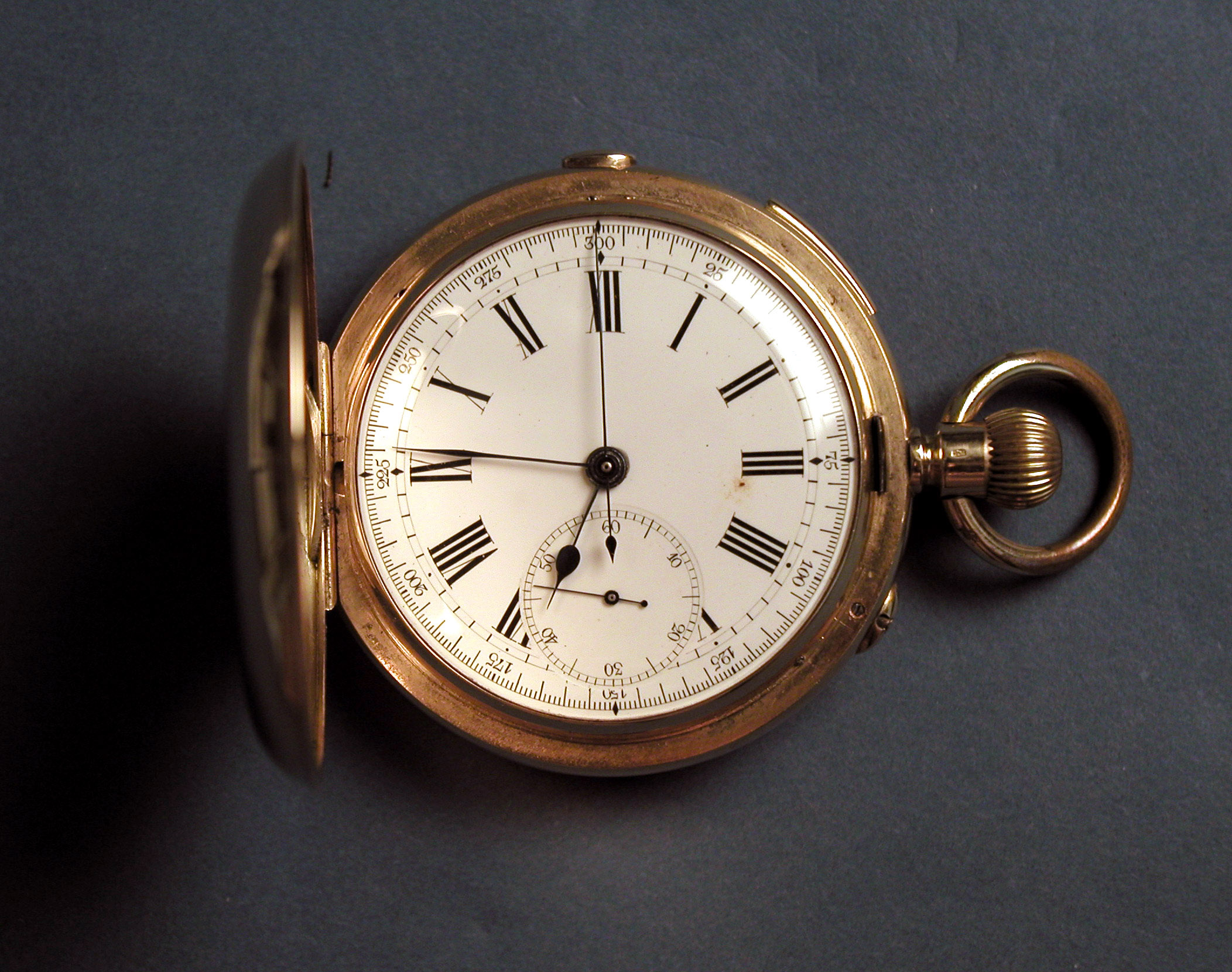 Hunting case pocket watch 18 carat gold case and watch, quarter repeating movement with one minute sub-dial inserted at 6 o'clock, stem wound, pin set, cut balance with overcoil spring, enamel dial, blue hour, minute and second hands, flat glass cover. Case has no decoration, hallmarked inside case. engraved on dome- "Presented to Edwin Bamford by the members of the legal profession in the Hawkes Bay Registration District 28th Sept 1893 " serial number on case- "27817" and "18c 817 "